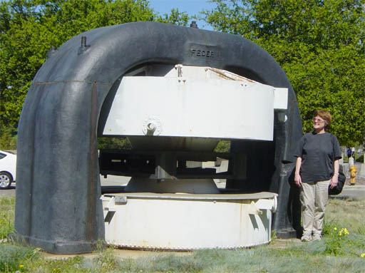 Magnet formerly used in the Lawrence 27" cyclotron, at the Lawrence Hall of Science. The woman in the image is 5' 3" (160 cm) tall. The bottom part of the black donut shaped magnetic pole pieces is buried under the concrete pad. These are made of iron and direct the path of the exterior magnetic field from one pole to the other. The white portions contained coiled copper conductor carrying direct current electricity to create a constant magnetic field. The black structure between the poles was a receiver for the disk-shaped vacuum chamber that contained the cyclotron's D shaped electrodes (called dees), shown in Image:LawrenceCyclotronDees.jpg. After the cyclotron became obsolete as a nuclear research device it was converted to use as a research medical accelerator for non-invasive treatment of inoperable brain tumors. The medical tasks perfected using this device are now performed using much lower cost specialized instruments.